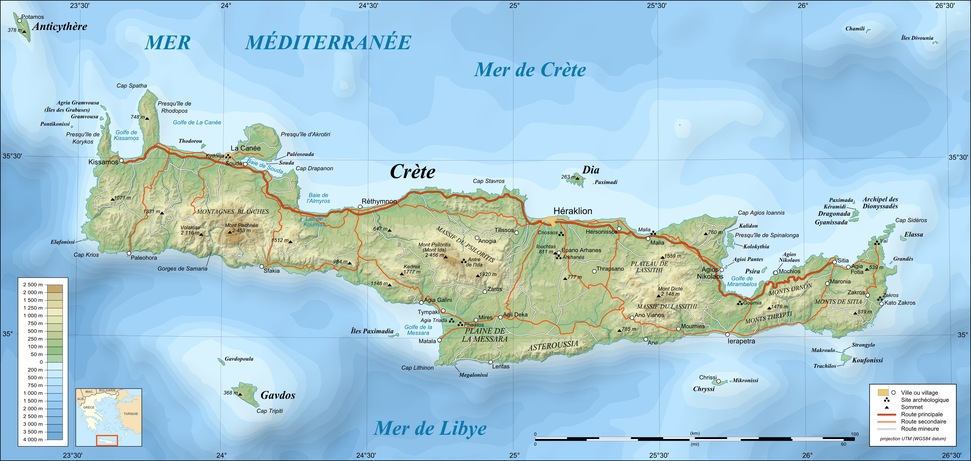 Topographic map in French of Crete island, Greece.